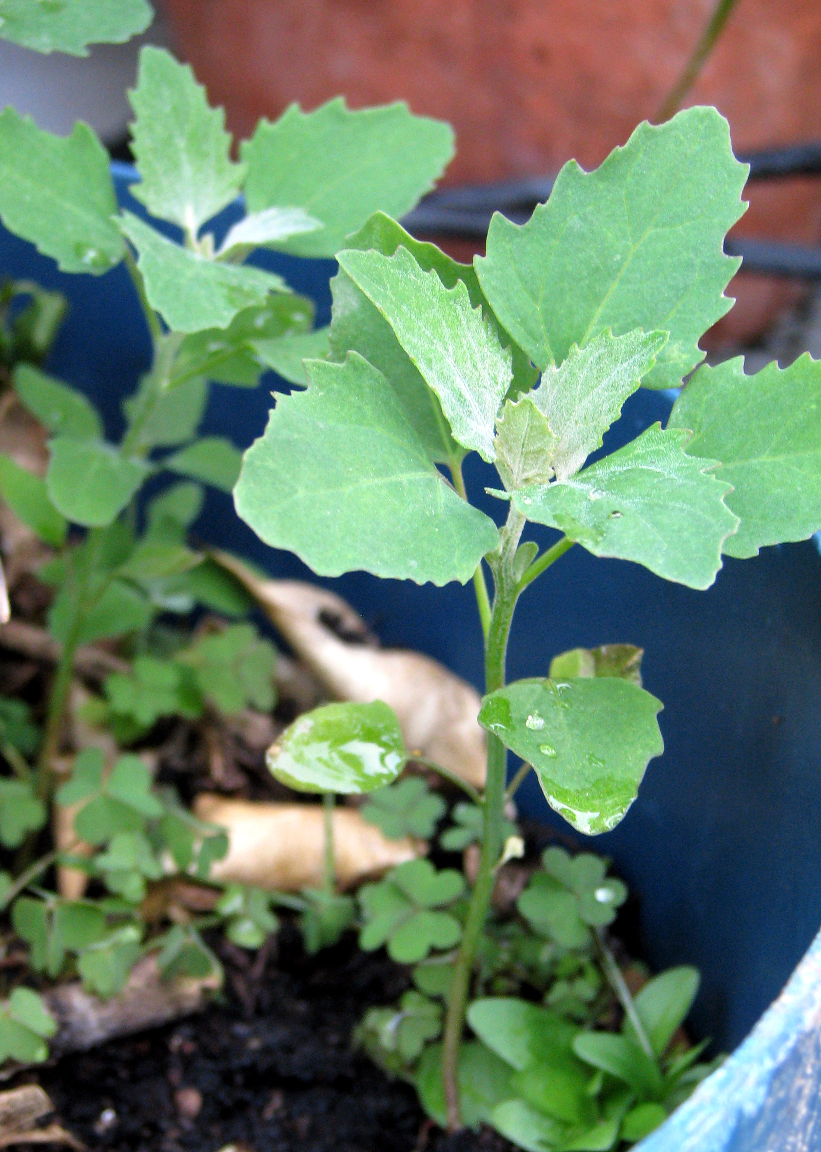 Young Chenopodium album aka lamb's quarter, pig's foot, goose foot